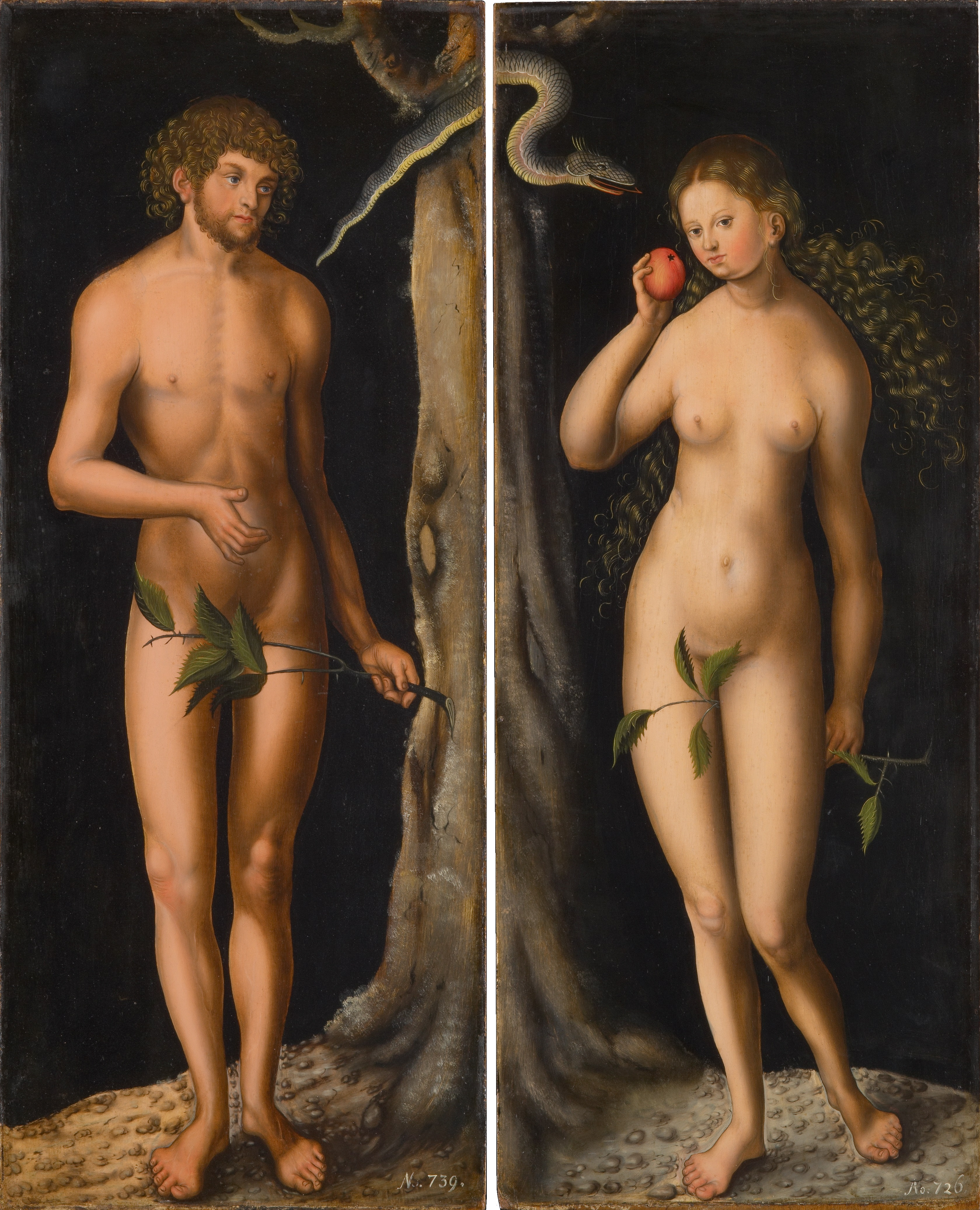 two paintings